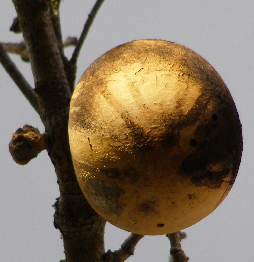 Oak apple gall on Garry oak (Quercus garryana), Sonoma County, California